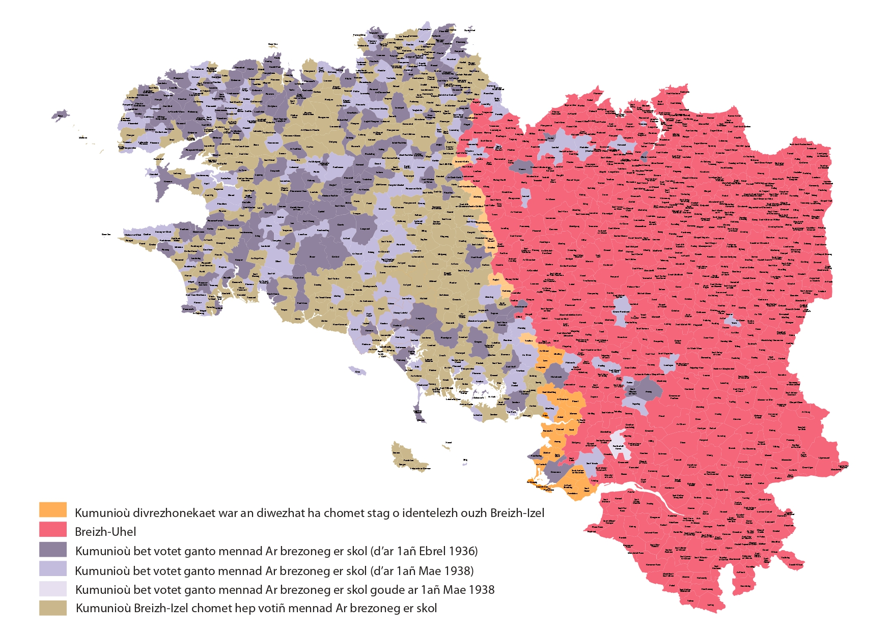 This map shows the municipalities which have adopted a resolution asking the French government to teach Breton at school between 1934 and 1938 during the campain leaded by Ar brezoneg er skol (Breton langue into the classroom); pink municipalities located in the eastern part of the country, called Upper Brittany or Breizh-Uhel, shows the region where the language had vanished in the past, remplaced with French or a "langue d'oil" ; orange municipalities shows municipalities located in Upper Brittany which have lost the language quite recently, around the 19th century and which has kept a strong identity link with Breton language ; the western part, called lower Brittany or Breizh-Izel, shows the part of the country where the language where still widely spoken in the 1930. The kaki colour shows the municipalities which haven't voted the resolution. The dark blue colour shows municipalities which have been the first to pass the resolution, before April 1936 and the light blue colour shows municipalities which have adopted the resolution by May 1938, just before the war came to stop the campain